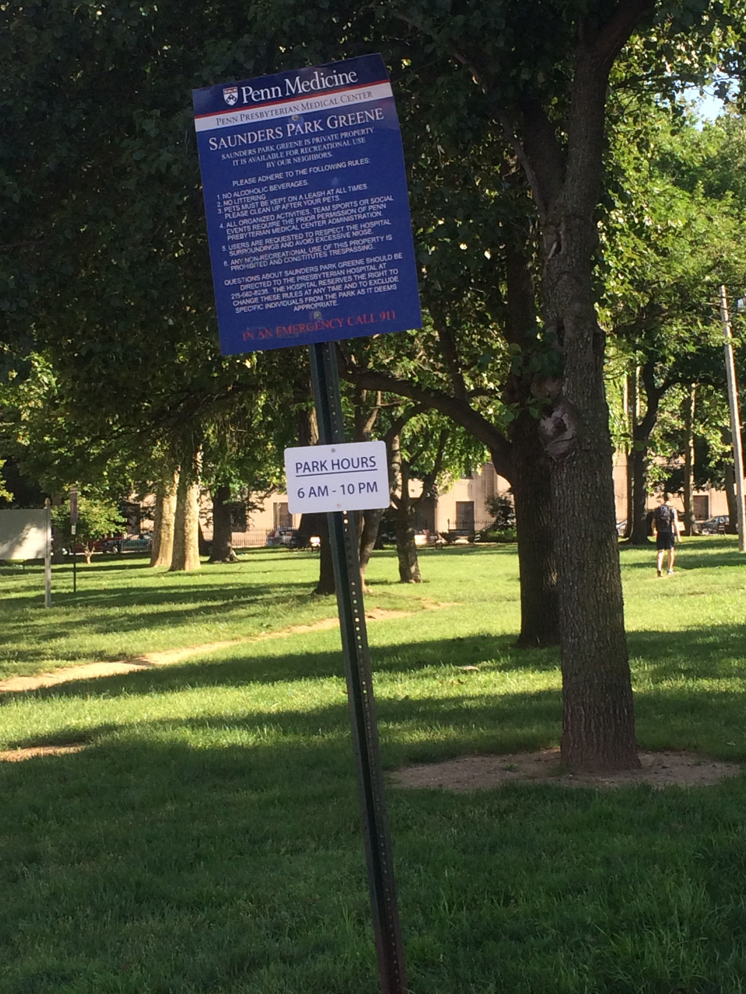 Saunders park from my iphone 5s